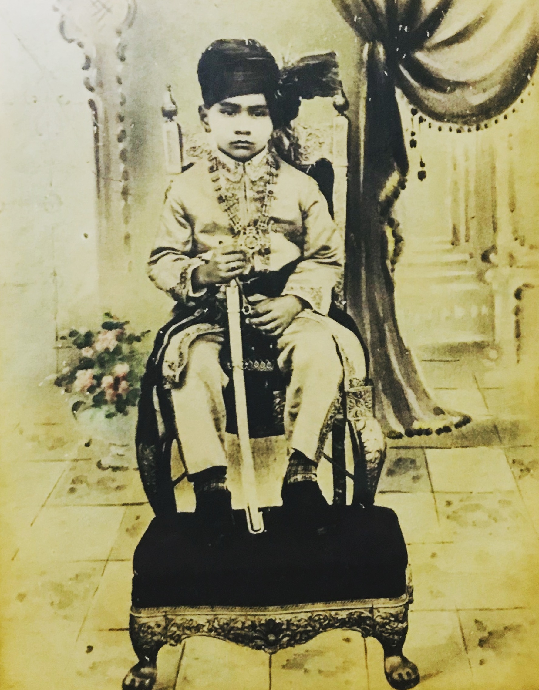 HH Maharajah Sri Ram Krishna Dev, the first titular King of Jeypore (Kalinga)